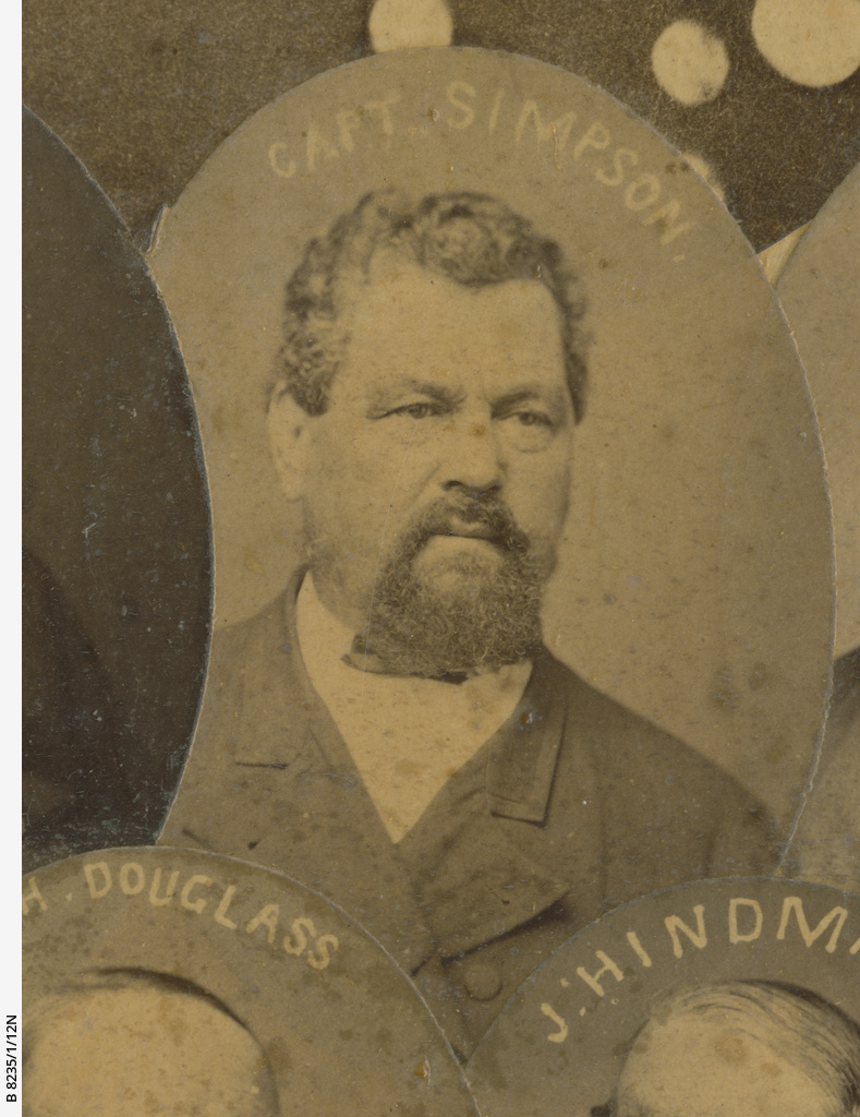 Captain Henry Simpson arrived in South Australia in August 1836 on board the ship the "John Pirie". Seaman, ship owner, trade and coal merchant, Adelaide, Port Adelaide, Glen Osmond. Detail from photo mosaic published 1872